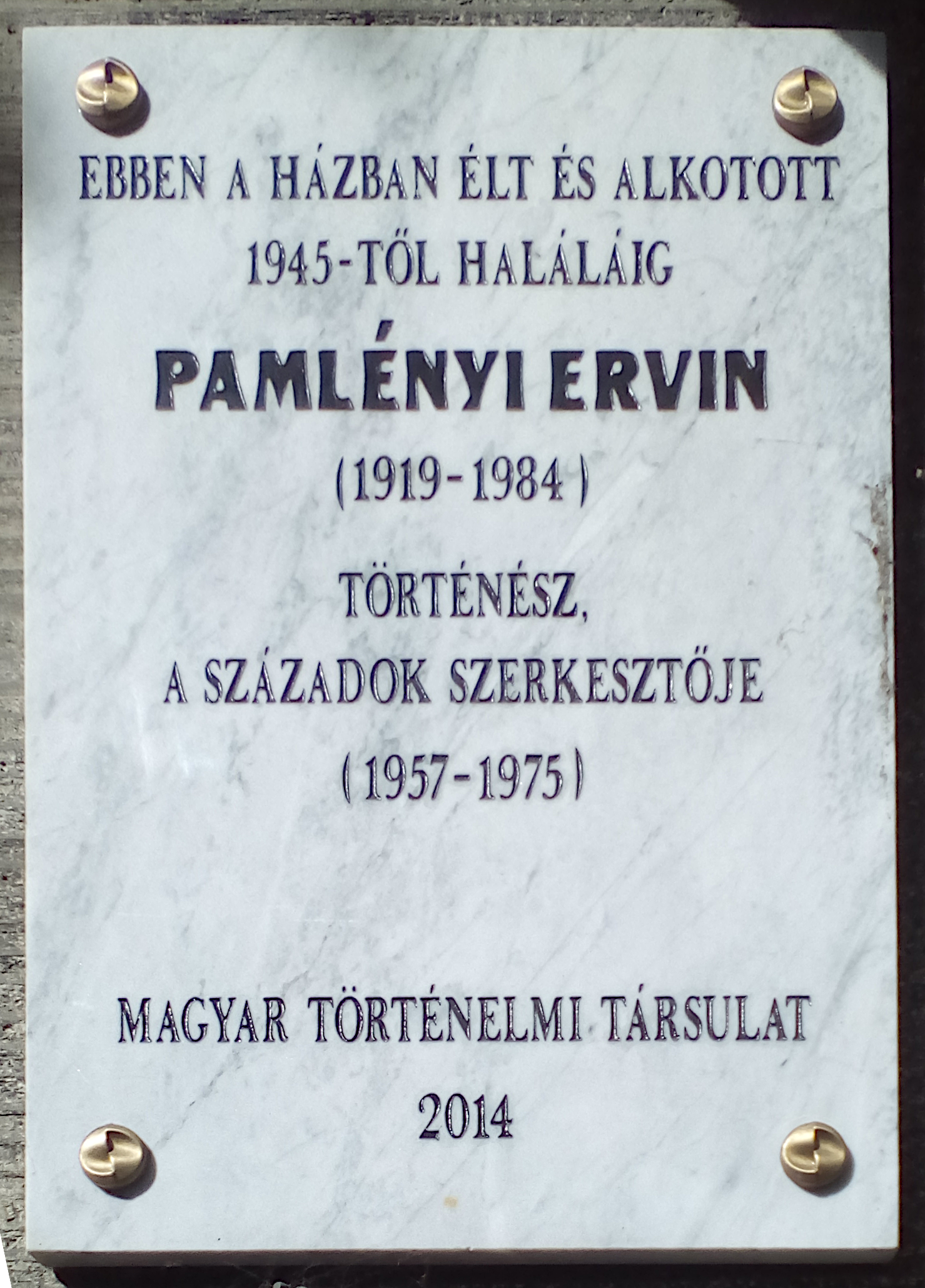 Ervin Pamlényi commemorative plaque in Budapest District XI, Karinthy Frigyes Street No 20.